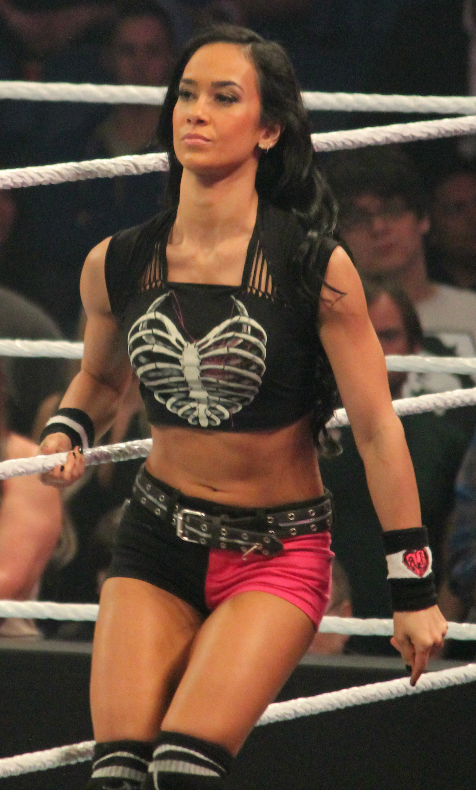 AJ Lee entering the ring during a WWE Raw event on April 7, 2014.